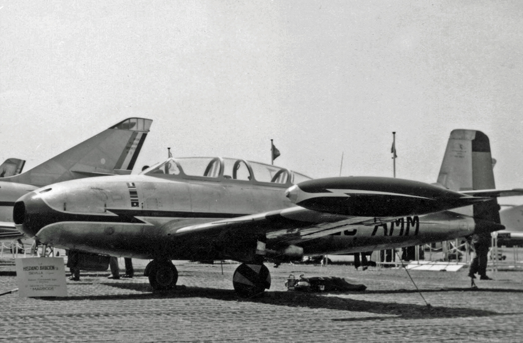 The Prototype Hispano HA.200R Saeta at the Paris Air Show at Le Bourget in May 1957